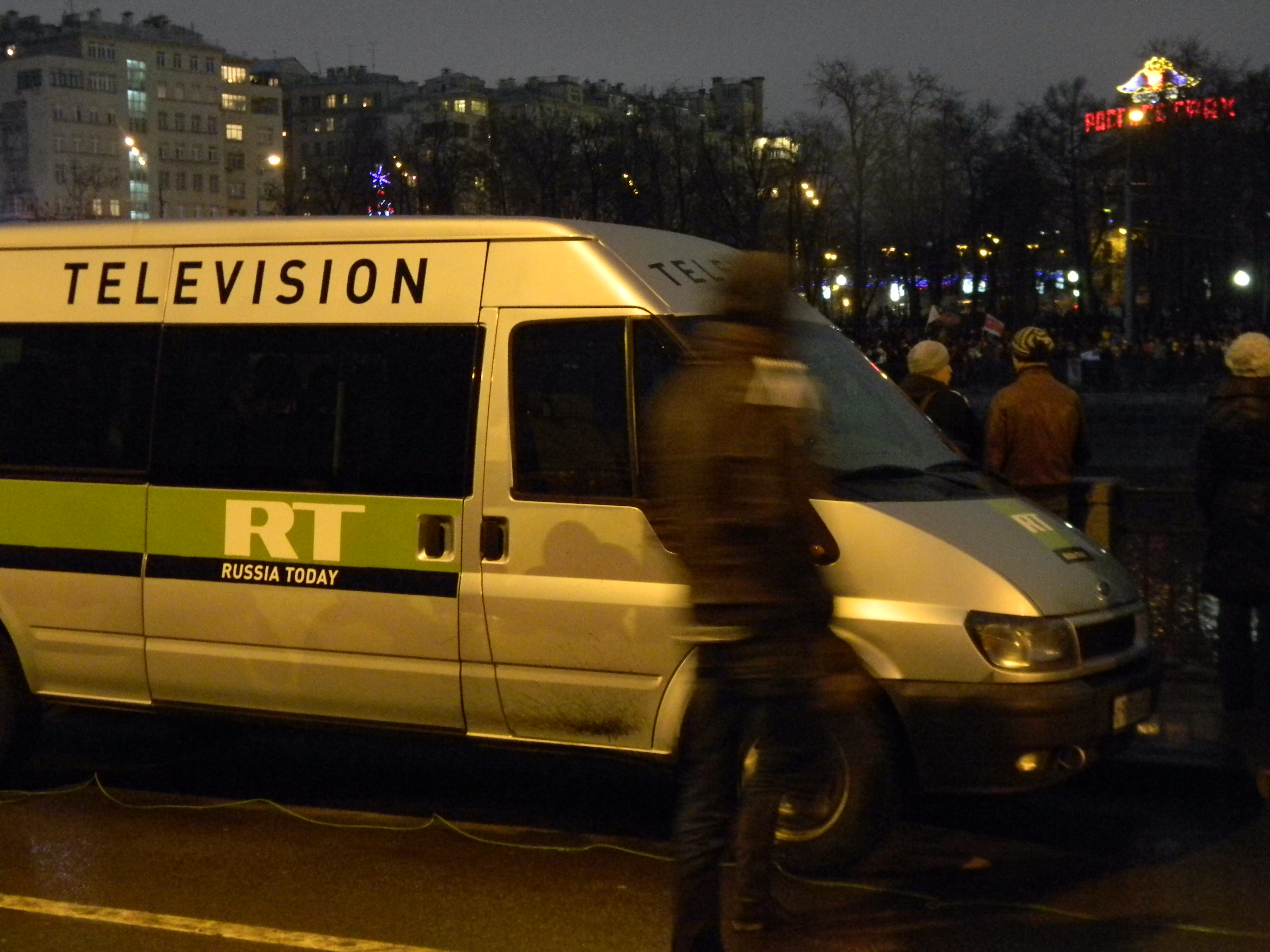 Russia Today team covering protests on Bolotnaya square in Moscow on 10/12.